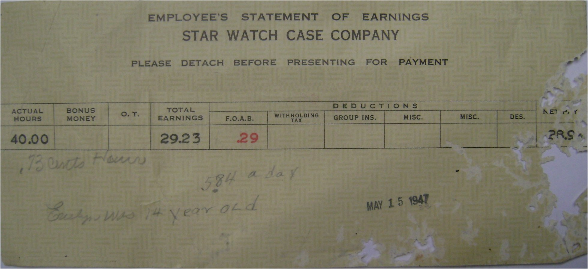 Star Watch pay stub of 1947 showing the 14 year old girl was paid 73 cents an hour, which was $5.84 per day. In 40 hours (one week pay) she earned $29.23 for week ending May 15, 1947.